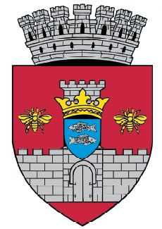 Coat of arms of Vaslui, Vaslui County, Romania.